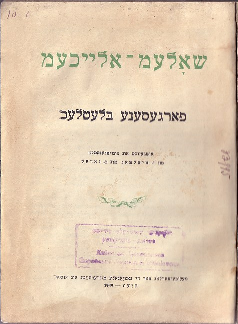 The title page of a book by Sholom-Aleichem.